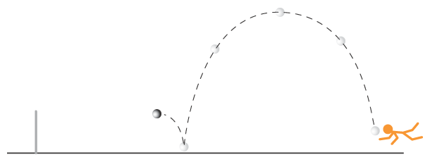 Image depicting an ideal fistball defense